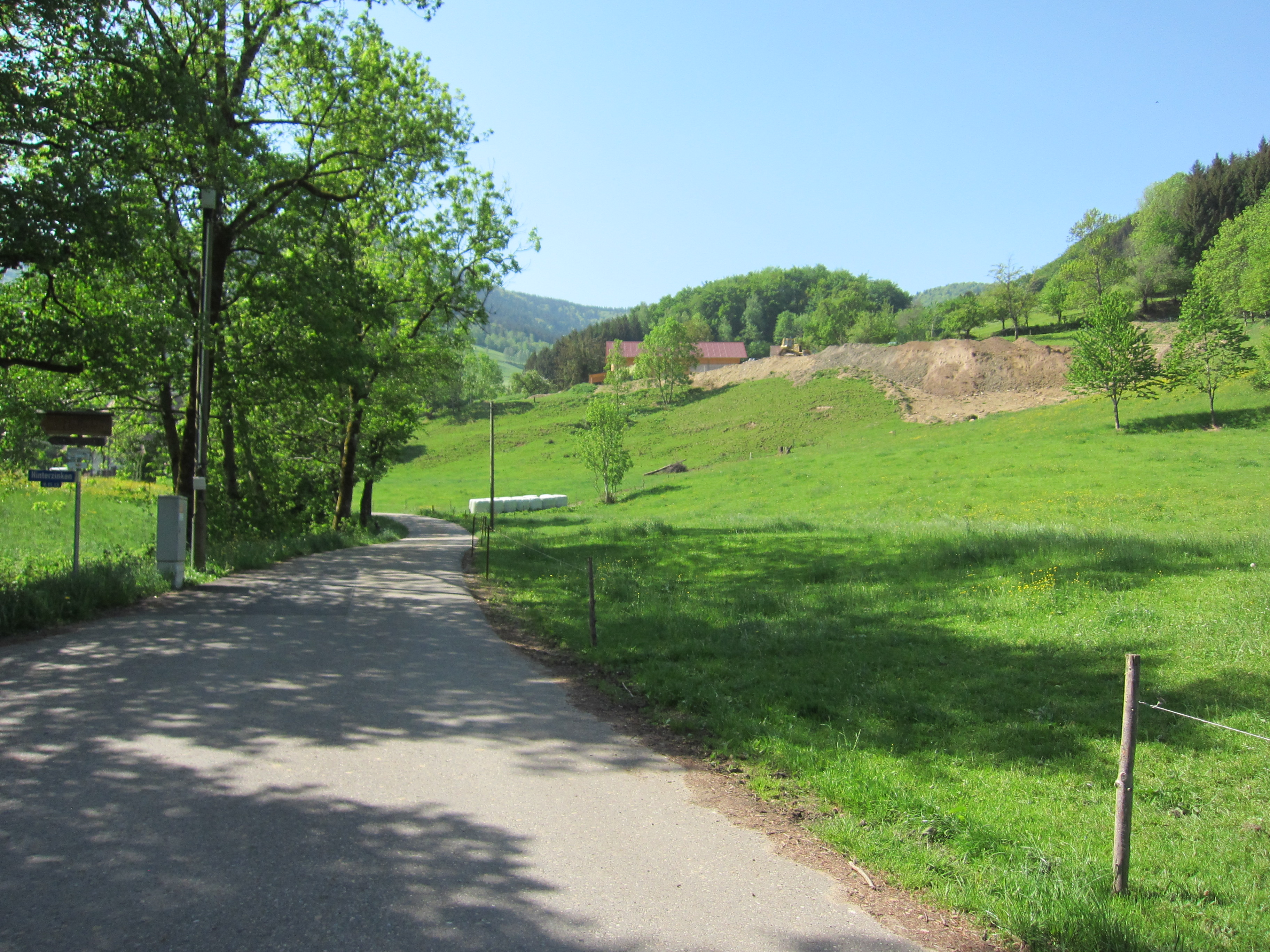 Schlossbühl, mountain Schlossbühl viewed from northeast, with a building (Hinterzinken 12) in front of it